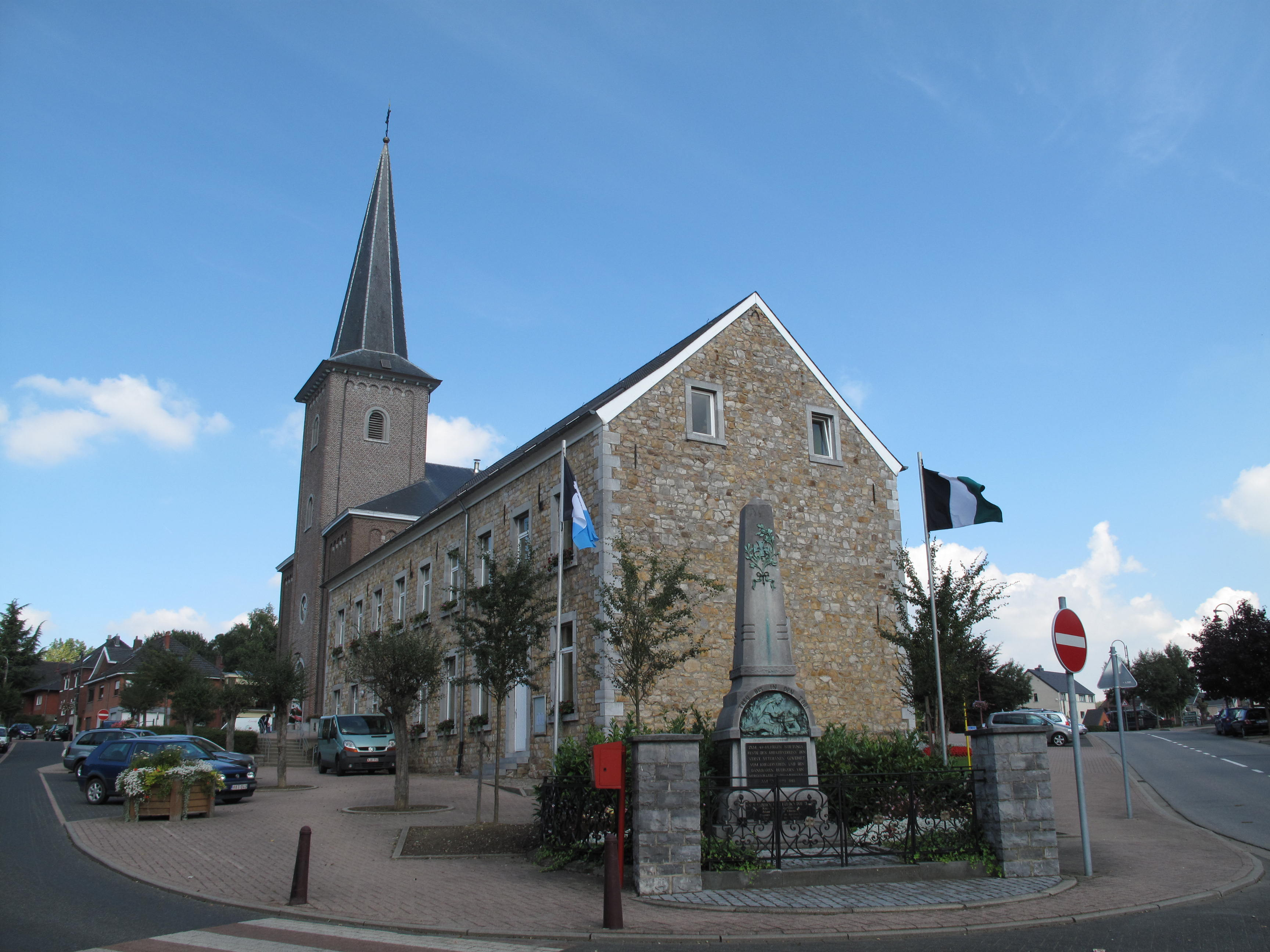 Hergenrath, church